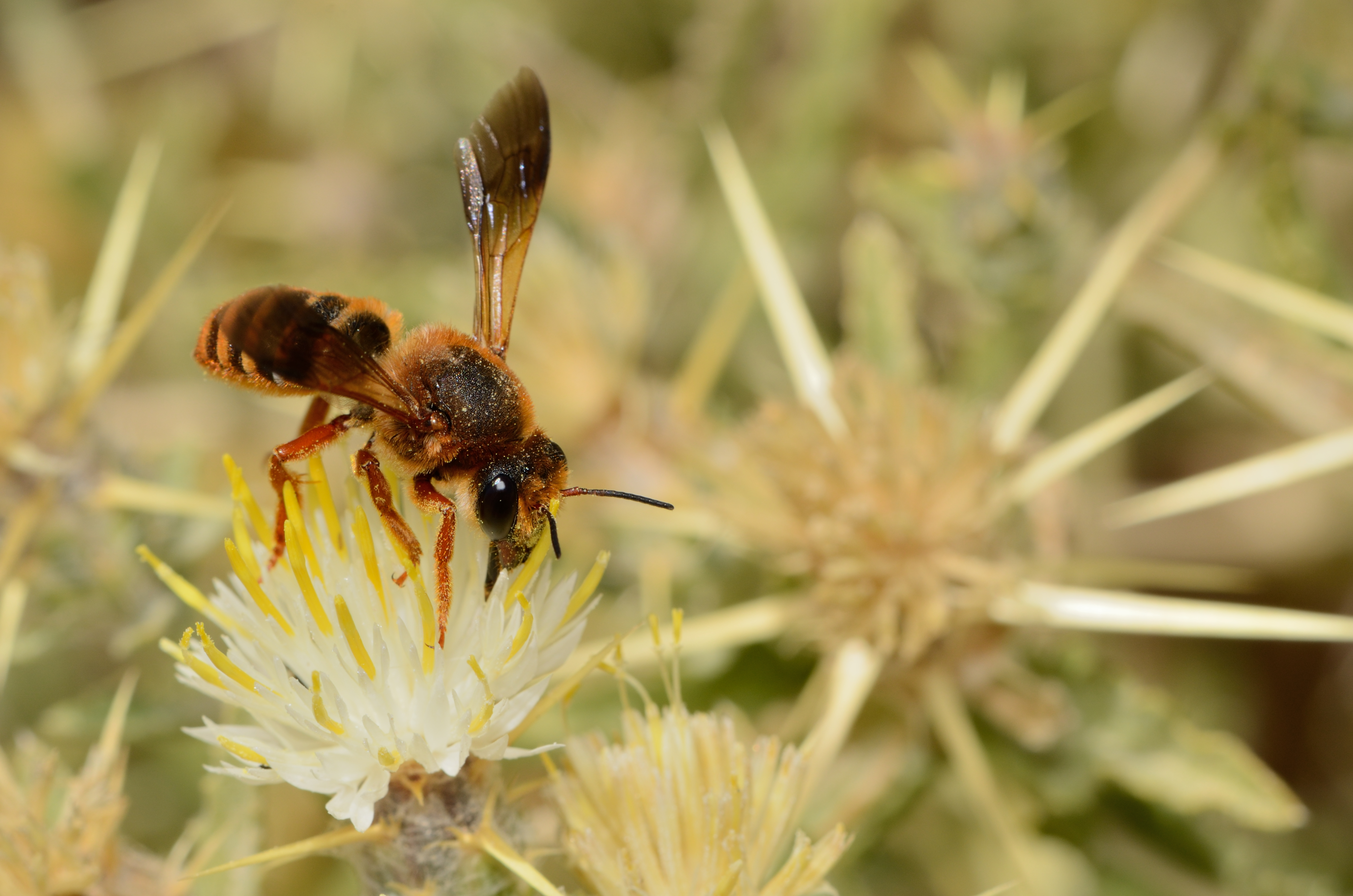 Megachile (Chalicodoma) judaea (Tkalců, 1999), female foraging on Centaurea sp., Nahal Mamshit, Northern Negev, Israel, April 24, 2013. Det. Christophe Praz 2013.